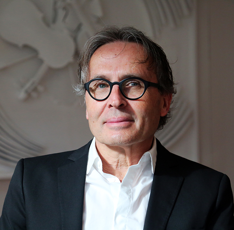 Professor Jose Antonio Sosa Diaz-Saavedra